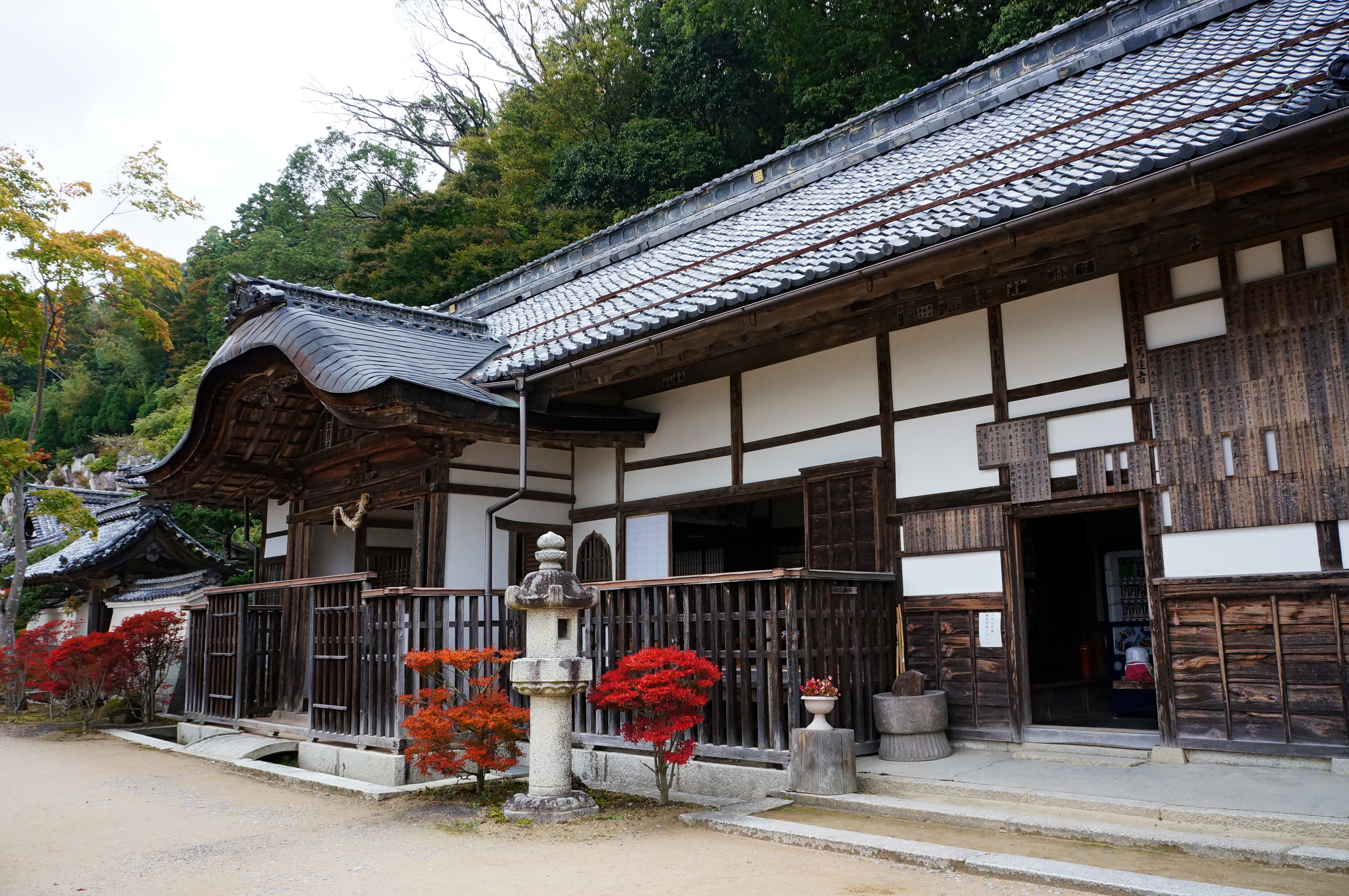 Kannonshō-ji in Azuchi, Omihachiman, Shiga prefecture, Japan.